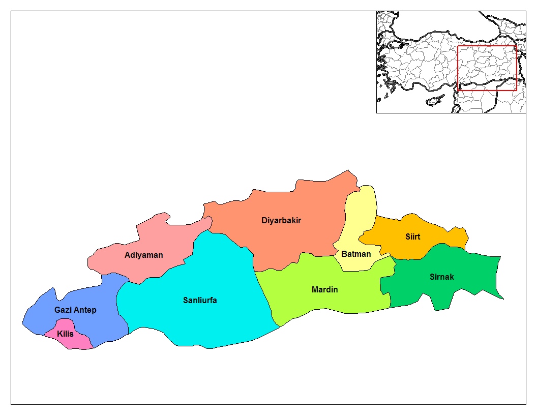 Map of the Southeastern Anatolia Region of Turkey. Created by Rarelibra 17:16, 17 November 2006 (UTC) for public domain use, using MapInfo Professional v8.5 and various mapping resources.